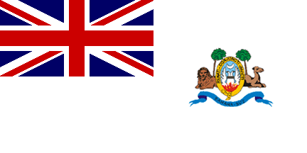 Sahara-Suz ensign